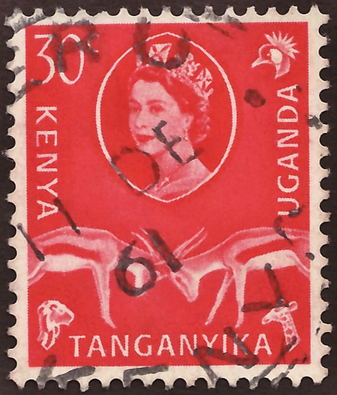 Stamp of British East Africa - KUT ("KUT" = the British colony "Kenya", the British protectorate "Uganda", and the British mandate area "Tanganyika"); 1960; definitive stamp of the issue "Animals and plants - Queen Elizabeth II of the United Kingdom"; stamp drawing with two animals of the spezies Gazella thompsoni under an acuminated oval with the portrait of Queen Elizabeth II of the United Kingdom wearing crown with view to half-left; stamp postmarked in 1961 Stamp: Michel: No. 113; Yvert et Tellier: No. 110; Scott: No. 125 Color: orange red to red Watermark: British East Africa No. 4 (= Great Britain No. 4) (multiple Saint Edward's crown over convoluted charcters "CA") Nominal value: 30 C (Cents) Postage validity: from 1 October 1960 until ? Stamp picture size (printed area): 18.0 x 22.0 mm